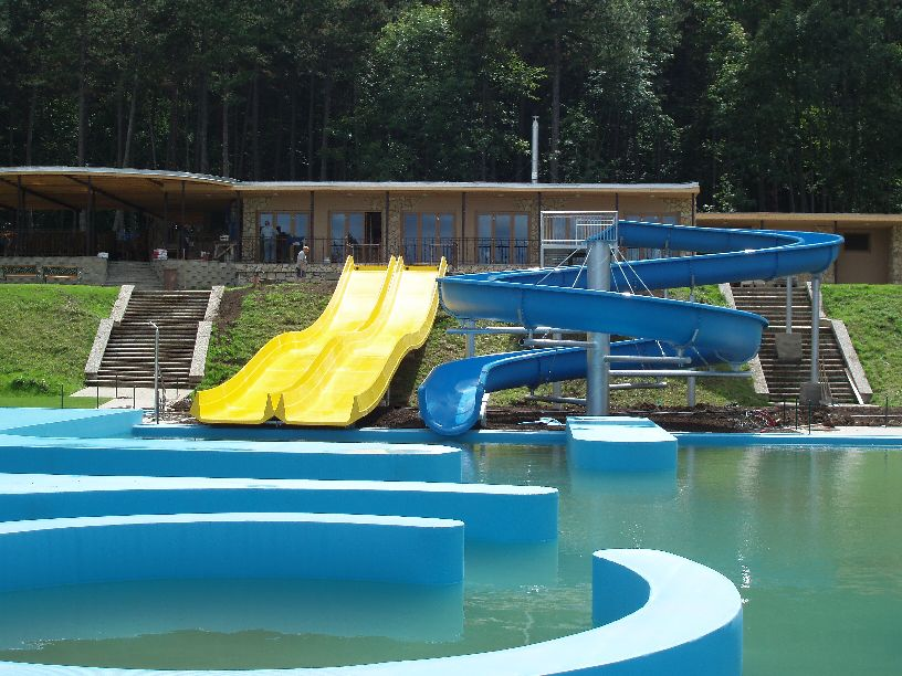 Ressl - Most